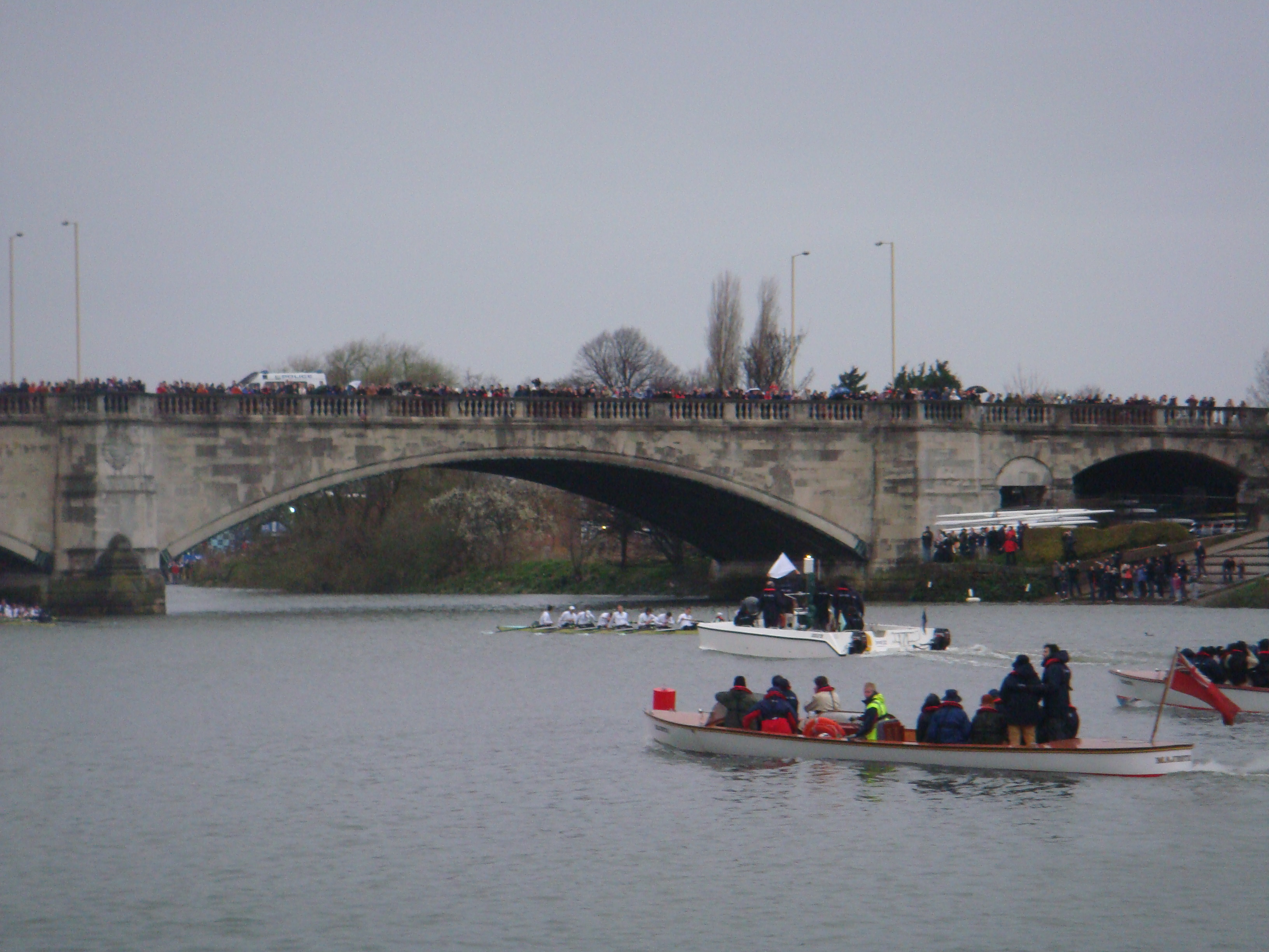 Chiswick bridge annual load test.